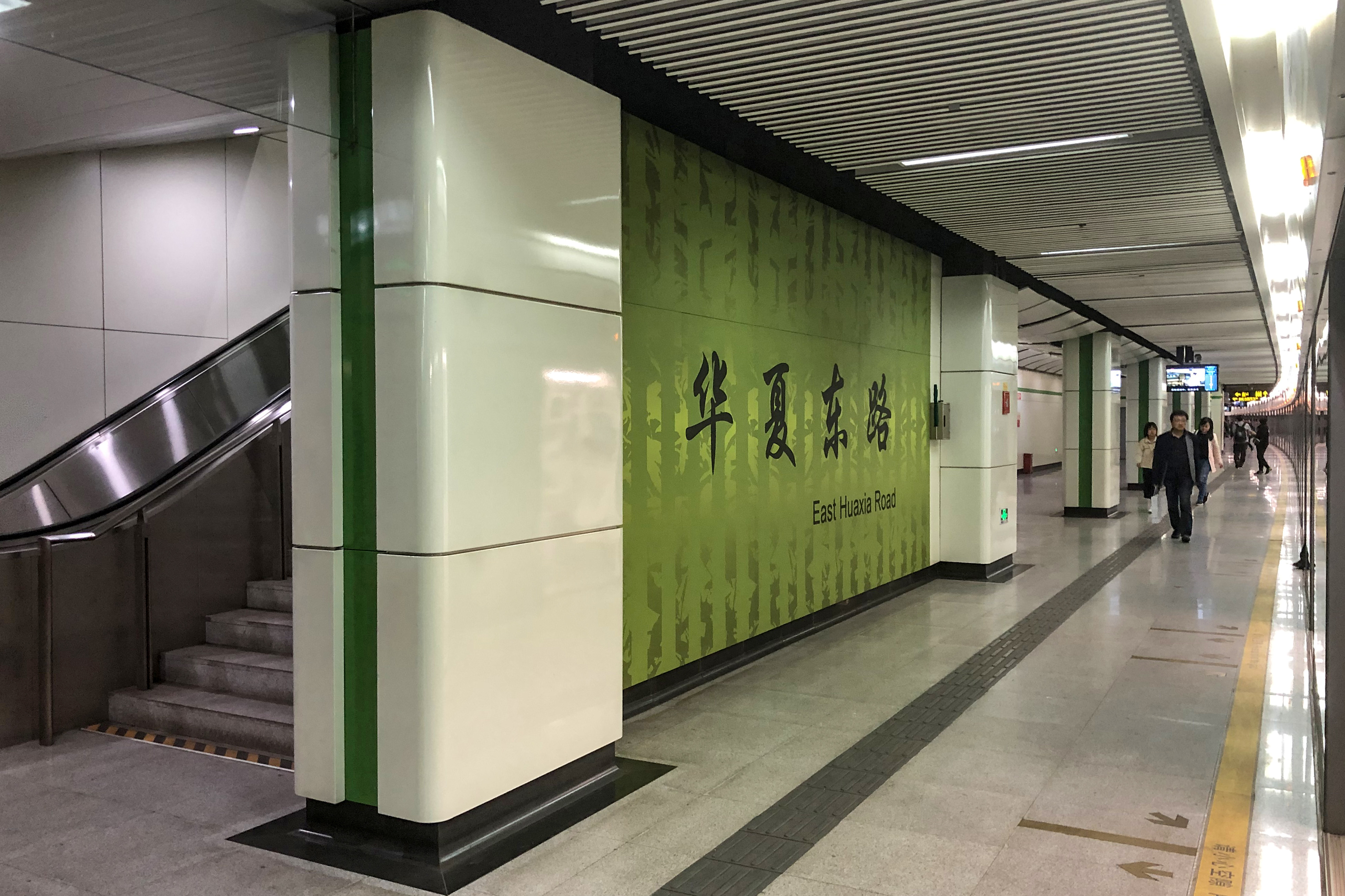 Curved platform! Although the station itself is in north-south direction...